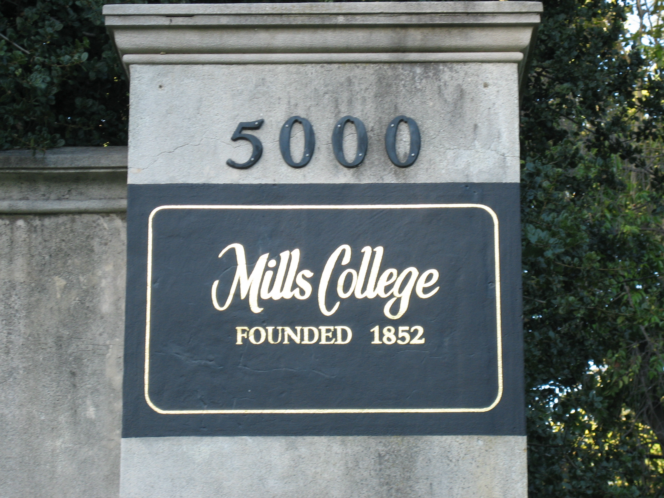 Uploading image of Mills College.